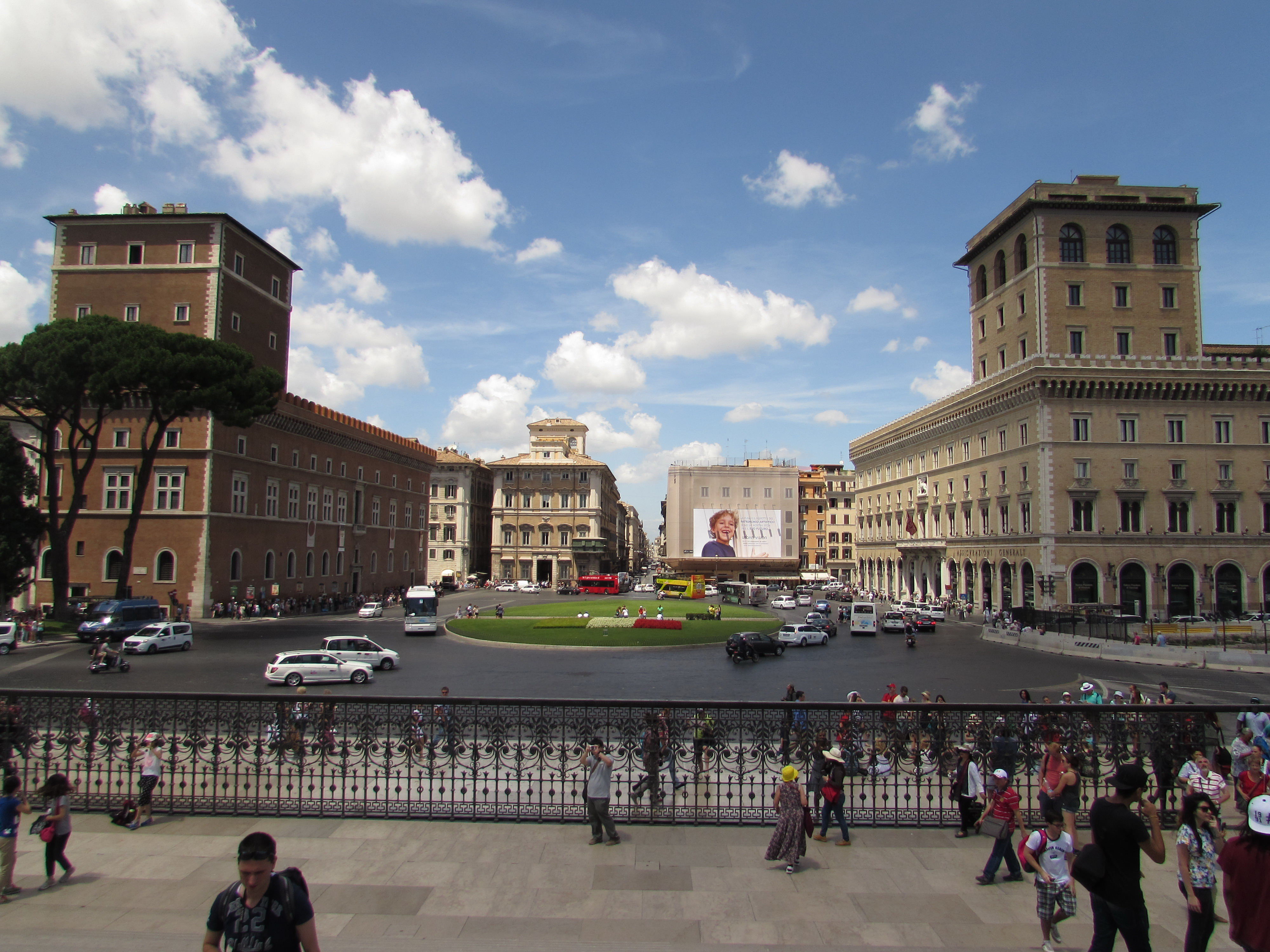 Piazza Venezia (Rome)